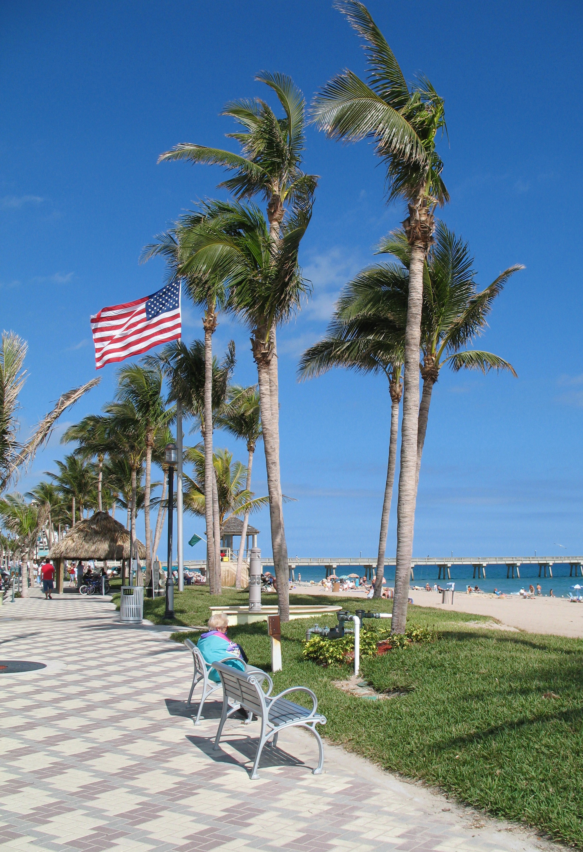 Deerfield Beach (Florida, USA): the beach and the pier